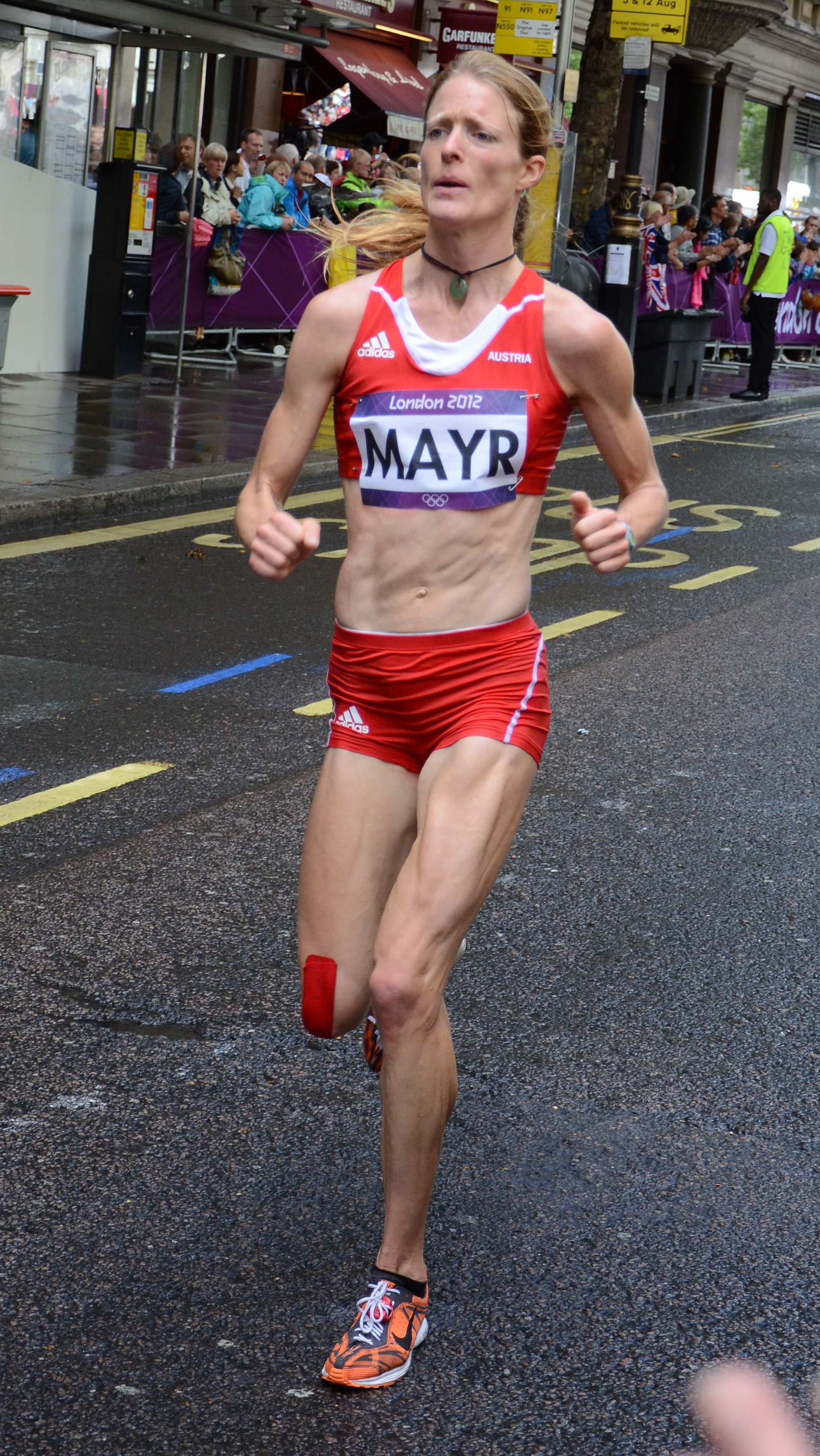 Andrea Mayr (Austria) in the marathon (w) at the Olympic Games 2012